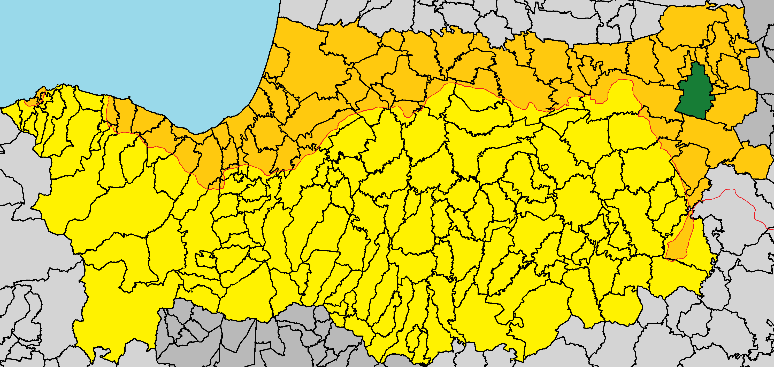 Palaikythro in Nicosia District (de jure).